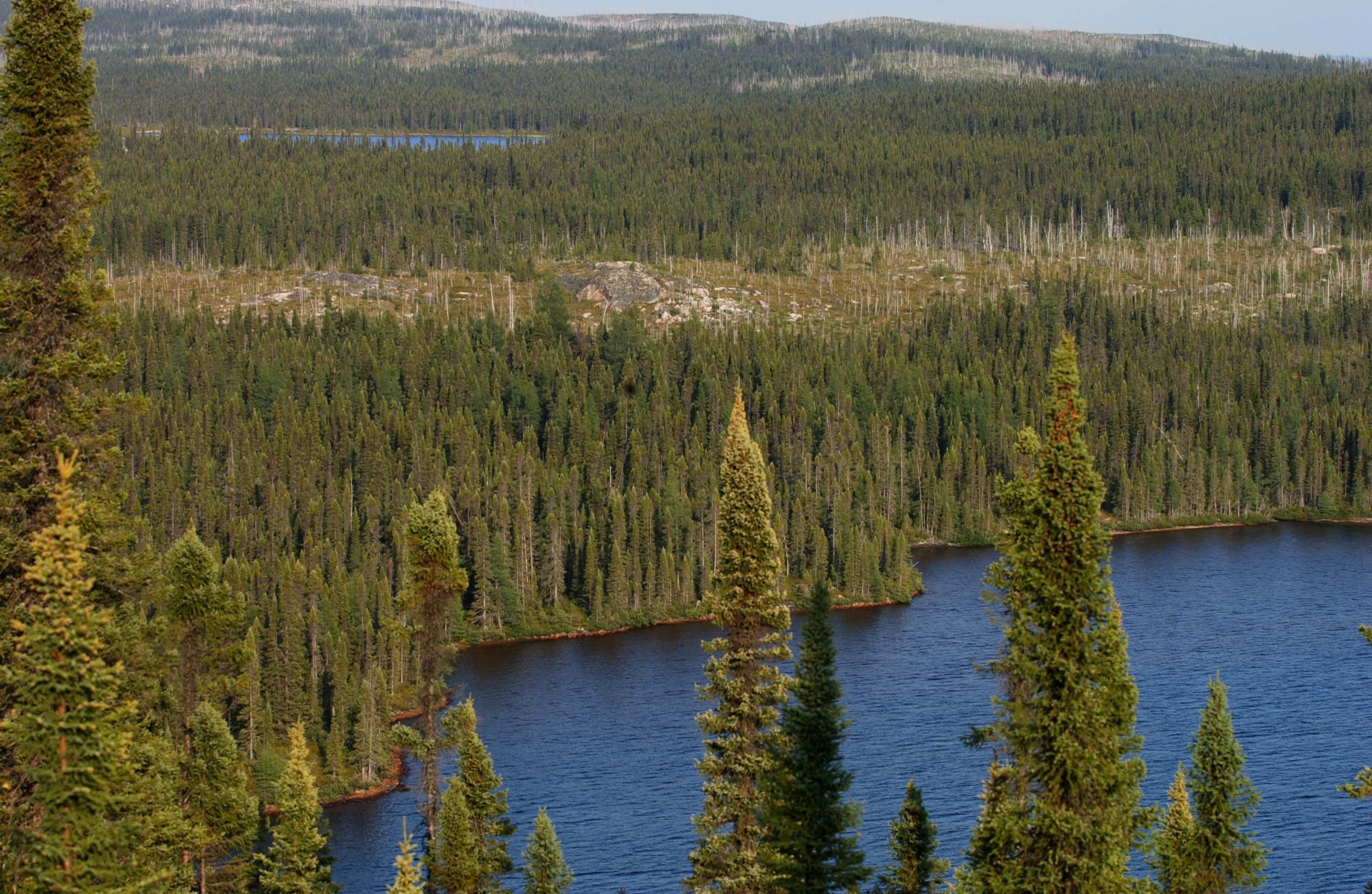 Taiga Landscape in Quebec, Canada, dominated by Black Spruce Picea mariana